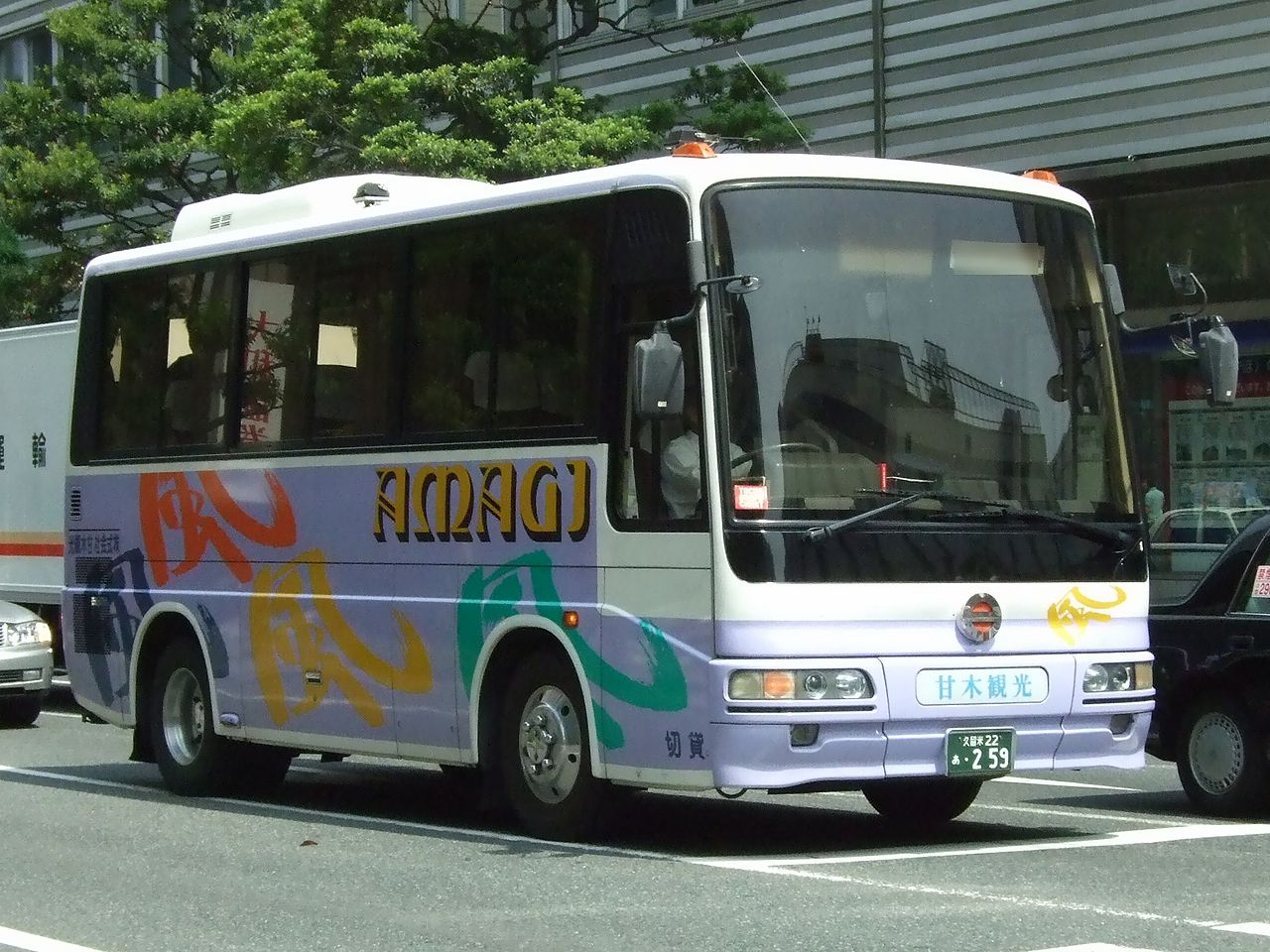 Company:Amagi Kanko Bus Use:tour bus Car license:久留米22 あ・259 Chassis manufacturer:Mitsubishi Motors Coachbuilder:Mitsubishi FUSO Bus Manufacturing Location:in Fukuoka City, Fukuoka, Japan